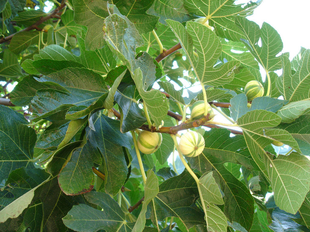 Figs of Ficus carica cultivar (variety) Panascè, wood and figs in two-toned yellow-green bands. Variety originated by spontaneous mutation, recovered in Liguria when it was considered lost (extinct). These dressings (of variegated figs and leaves) are in the same individual due the presence of two types of cells with different genetics. It is a Chimera. The yellow cells are changed with a disadvantageous mutation, and are in fact unable to produce chlorophyll and form tissues connected and united with those normal green, but distinct, i.e. not mixed with cells to normal parenchyma. Picture taken in Spain.